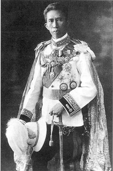 Photograph of Prince Narisara Nuvadtivongs